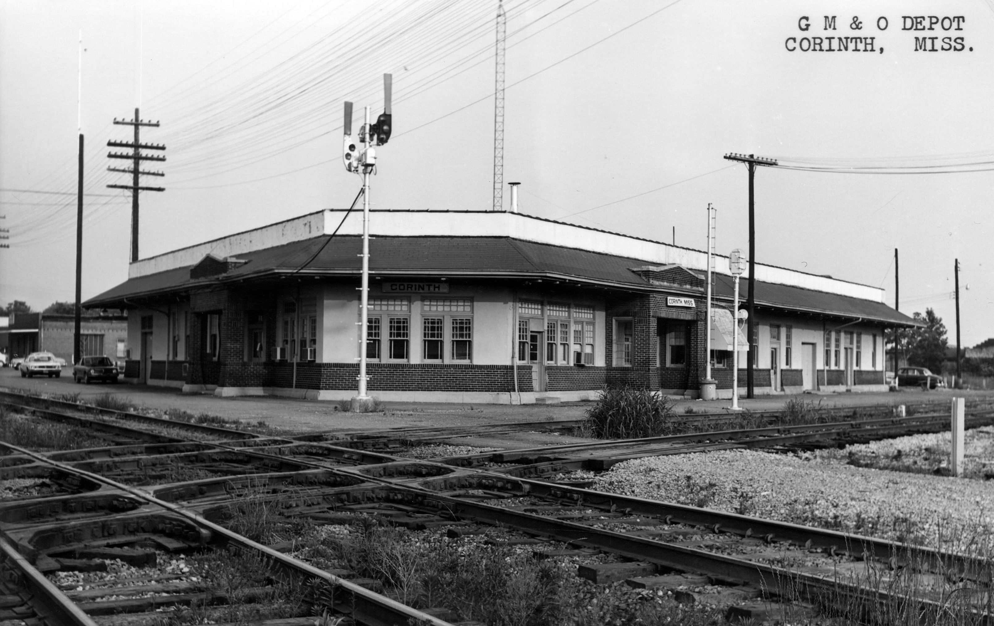 Collection: Railroad Depot Postcard Collection Call number: PI/1987.0009 System ID: 77346 G. M. and O. Depot, Corinth, Miss. Please see our profile page for information on ordering. Scanned as tiff in 2008/11/10 by MDAH. Credit: Courtesy of the Mississippi Department of Archives and History